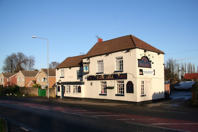 The Blue Bell public house, High Road, Carlton-in-Lindrick, Nottinghamshire